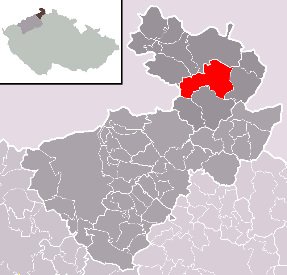 Location of Staré Křečany municipality within Děčín District and administrative area of Rumburk as a Municipality with Extended Competence.